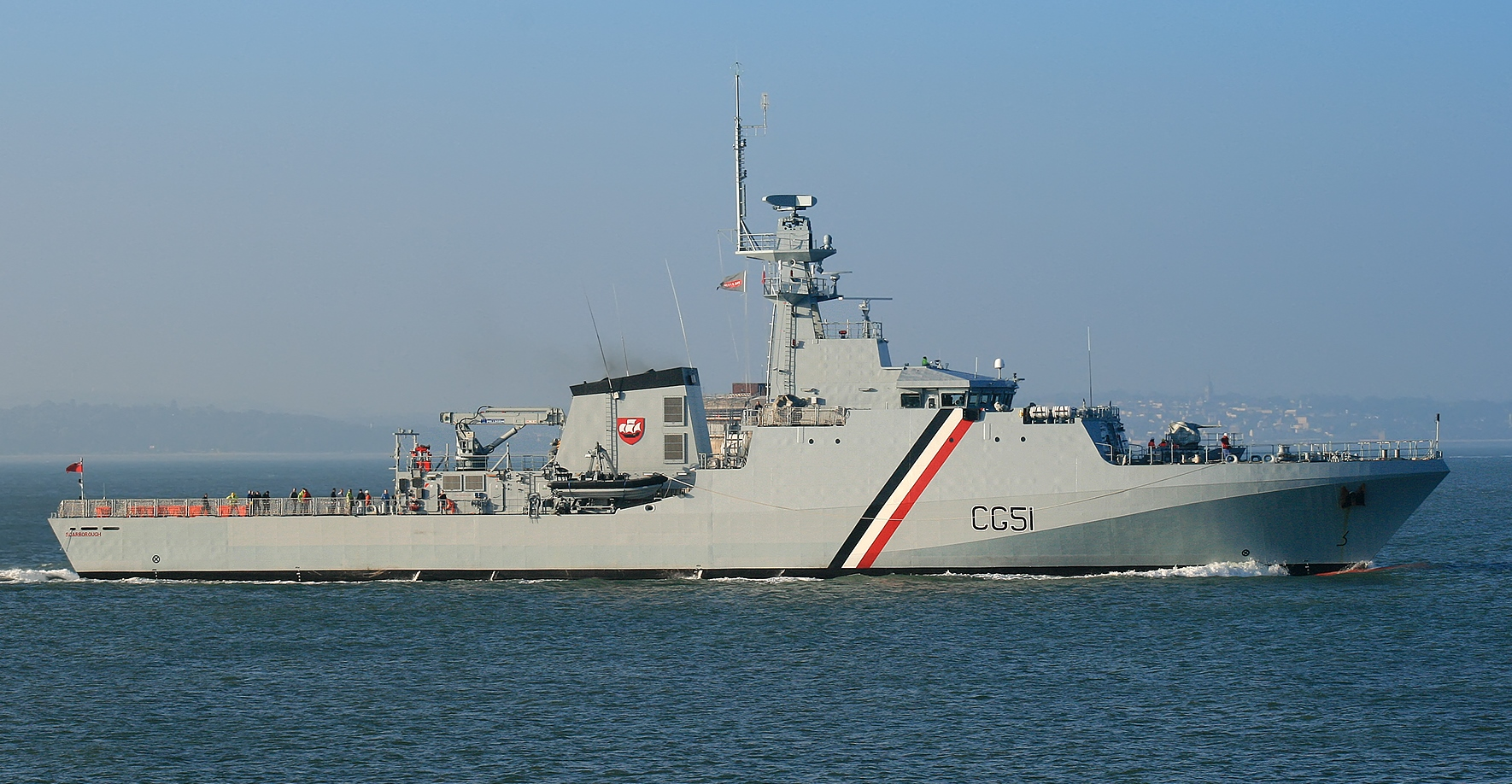 T&T Scarborough, a corvette built on the River Clyde, Scotland, UK, for the Trinidad & Tobago Defence Force, built primarily to counter the drug smuggling trade in the Caribbean Sea, inward bound on builder's trials to Portsmouth Harbour 11 October 2010 flying the British merchantile Red Ensign and the builder's pennant of BAe Systems. The contract for the supply of three vessels was cancelled, and BAe Systems are converting all three for similar patrol duties with the Brazilian Navy. Image uploaded by me User:George.Hutchinson from a photograph taken by and supplied by Brian Burnell. Wikipedia editors are reminded that the copyright remains with the photographer, and that the terms of the Creative Commons licence; that allow editors to reuse this image apply to Wikipedia editors also, as they do to other re-users of this image. Breaches of the licence terms are not only unlawful, but are also antisocial, in that breaches discourage photographers from making their images freely available to everyone without payment. Wikipedia re-users are also reminded of the license terms that derivatives of this image should not imply that the adaptation is endorsed or approved by the author or copyright holder. Neither should derivatives be presented as the creation of the author or copyright holder, while clearly stating that the adaptation is a derivative of the original. Attribution online should be in this format Brian Burnell. On the printed page, a simpler form is acceptable - example: "Image: Brian Burnell". Non-Wikipedia users are requested to advise Brian Burnell of its use other than on Wikipedia.